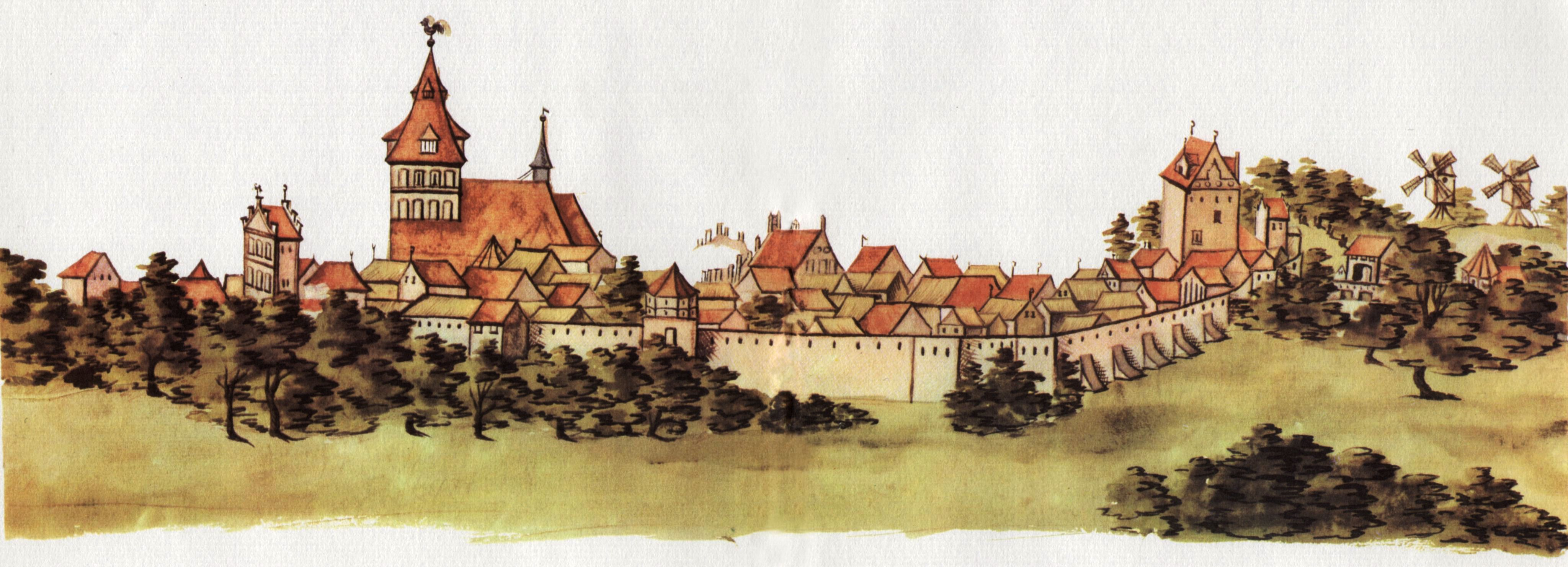 Cityview of Grimmen from the "Stralsunder Bilderhandschrift"